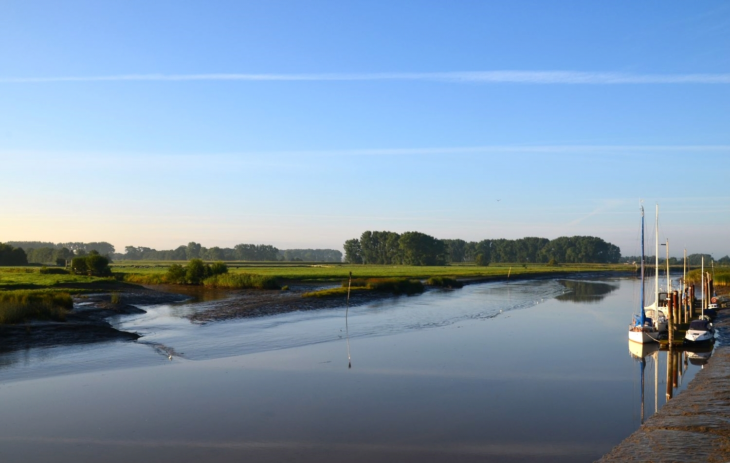 habor, boat, landing stage, wischhafen, elbe, krautsand, nordkehdingen, Süderelbe